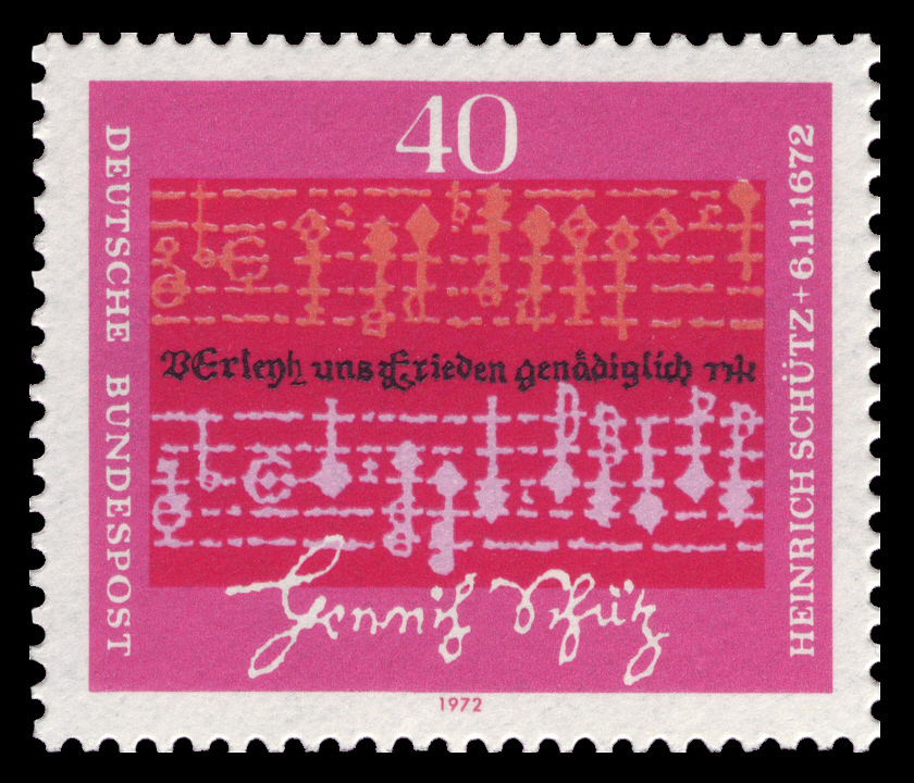 300th day of death of Heinrich Schütz (1585–1672) Graphics by König Ausgabepreis: 40 Pfennig First Day of Issue / Erstausgabetag: 29. September 1972 Michel-Katalog-Nr: 741